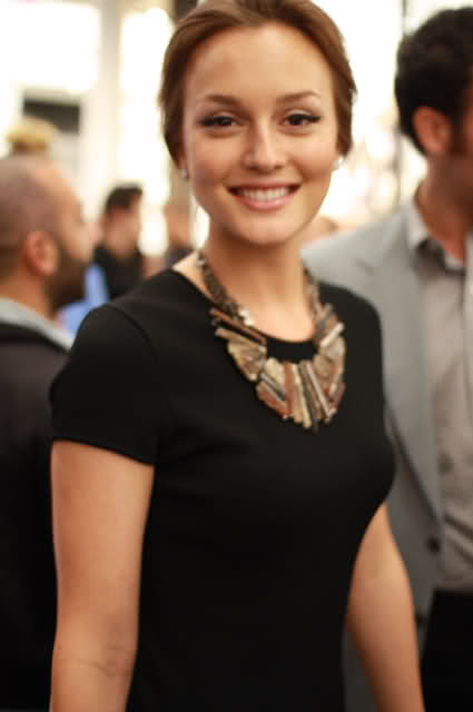 Leighton Meester at Chanel's SoHo store re-opening.